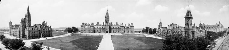 Panorama of the Canadian Parliament Buildings: (from left to right) the West Block, the original Centre Block (destroyed by fire in 1916) and the East Block. Parliament Hill, Ottawa, Canada.